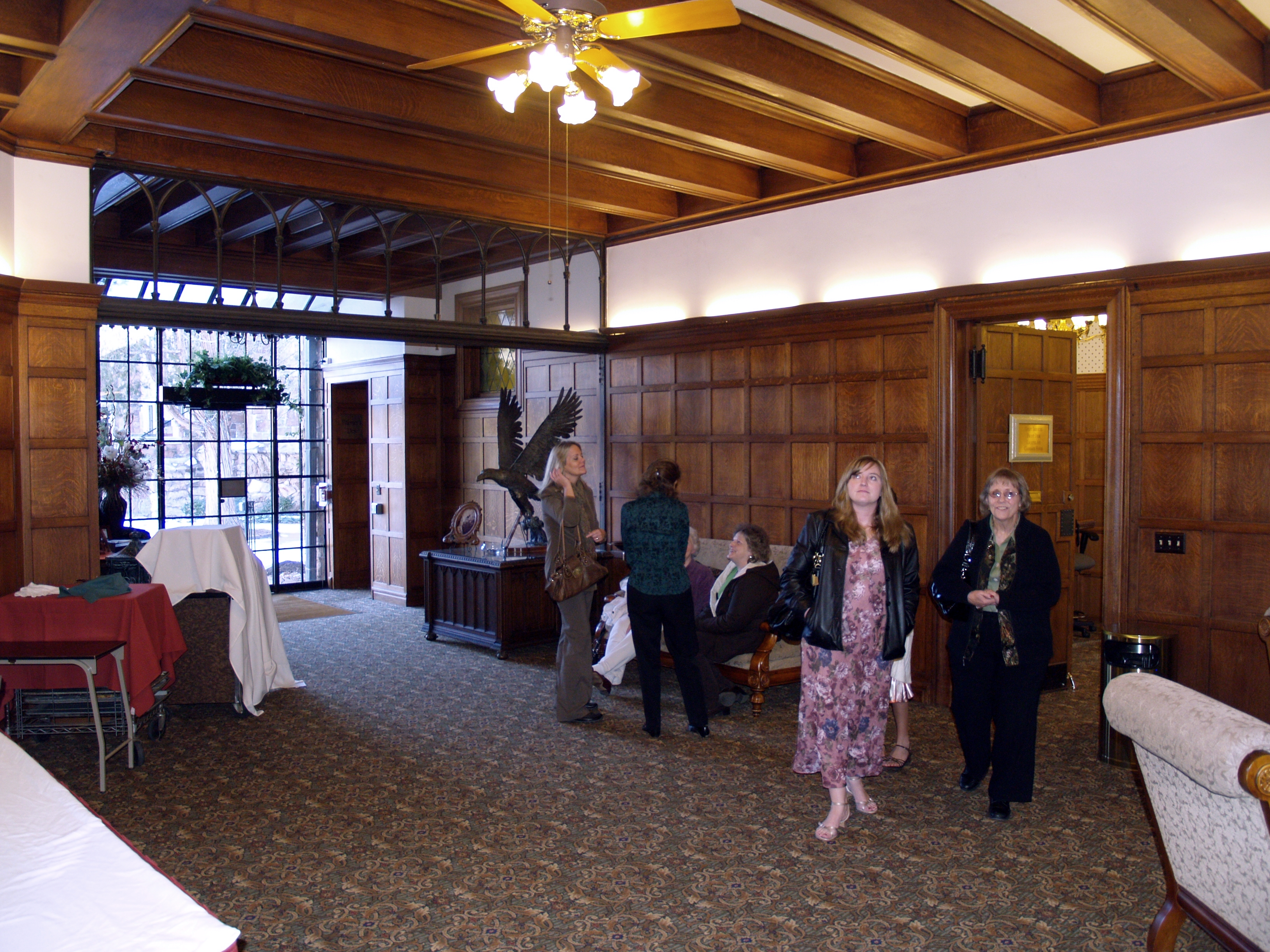 Glen Eyrie castle entry room in Colorado Springs.